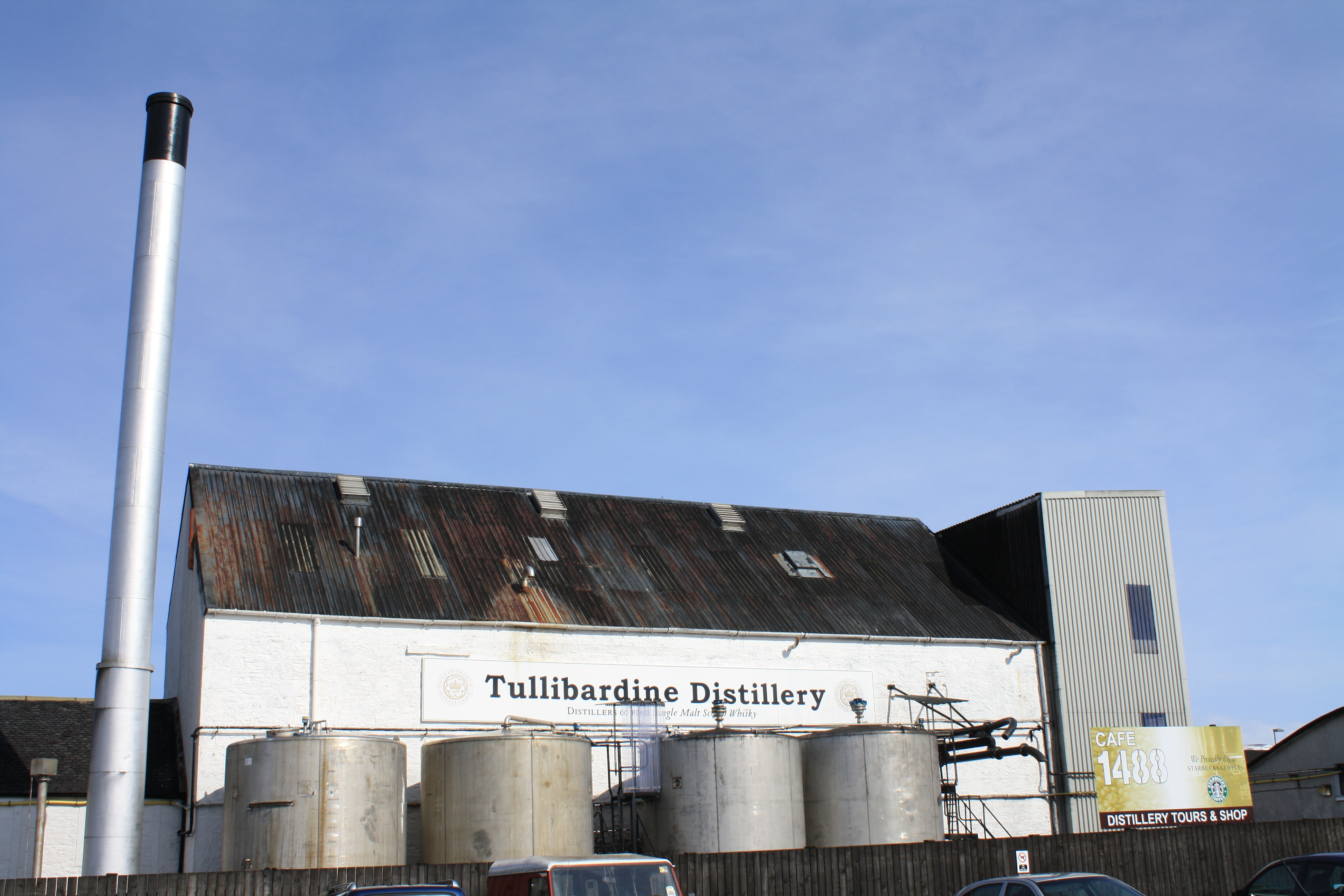 Tullibardine Distillery Tullibardine Distillery, a lowland style of malt whisky.